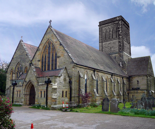 St. Paul's church, Rusthall Built in the 1850's and further extended subsequently to accommodate the expanding population of the west side of Tunbridge wells.